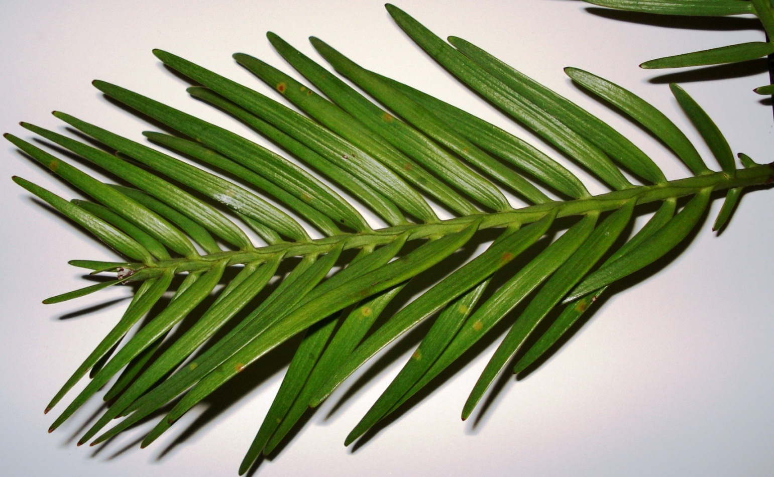 Wollemia nobilis - branch